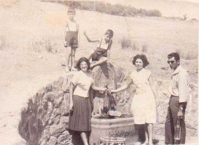 Ainsenour water source